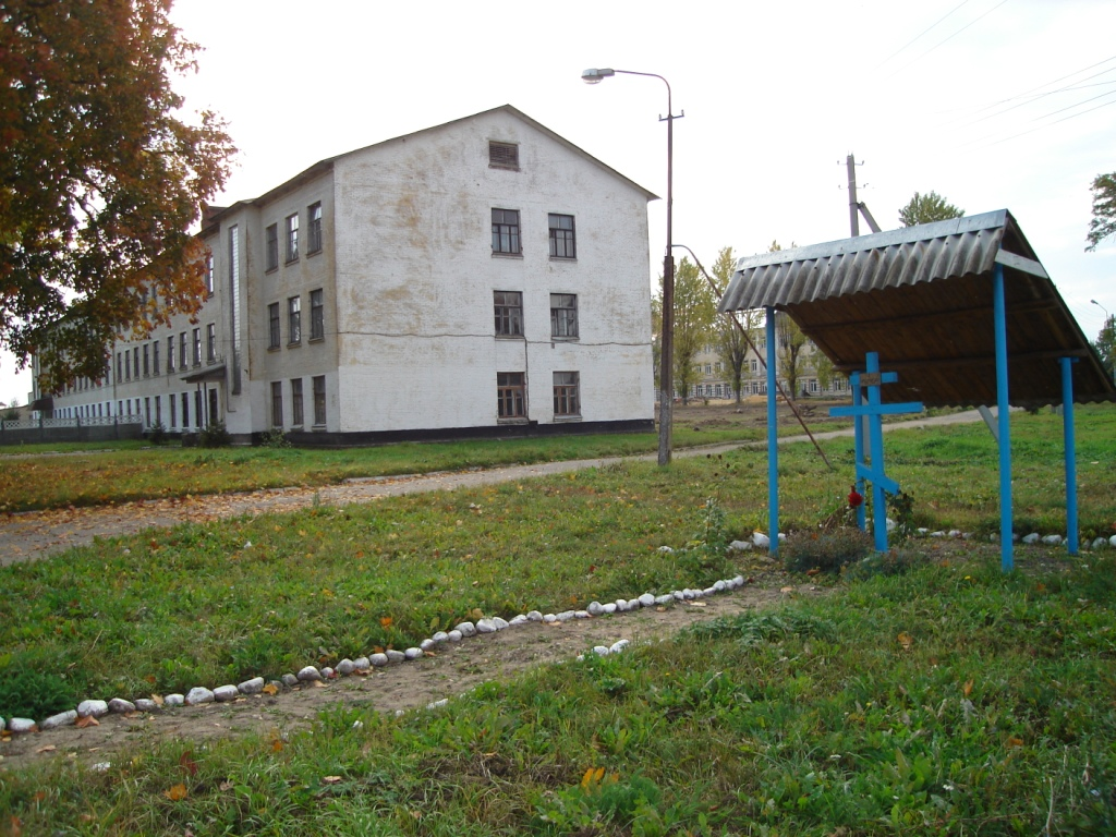 Monastery of Holy Trinity (Slutsk, Belarus)